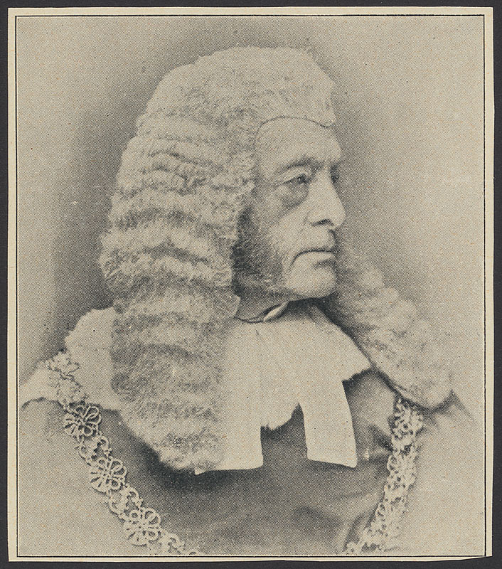 Sir Frederick Pollock, 1st Baronet (1845-1937)